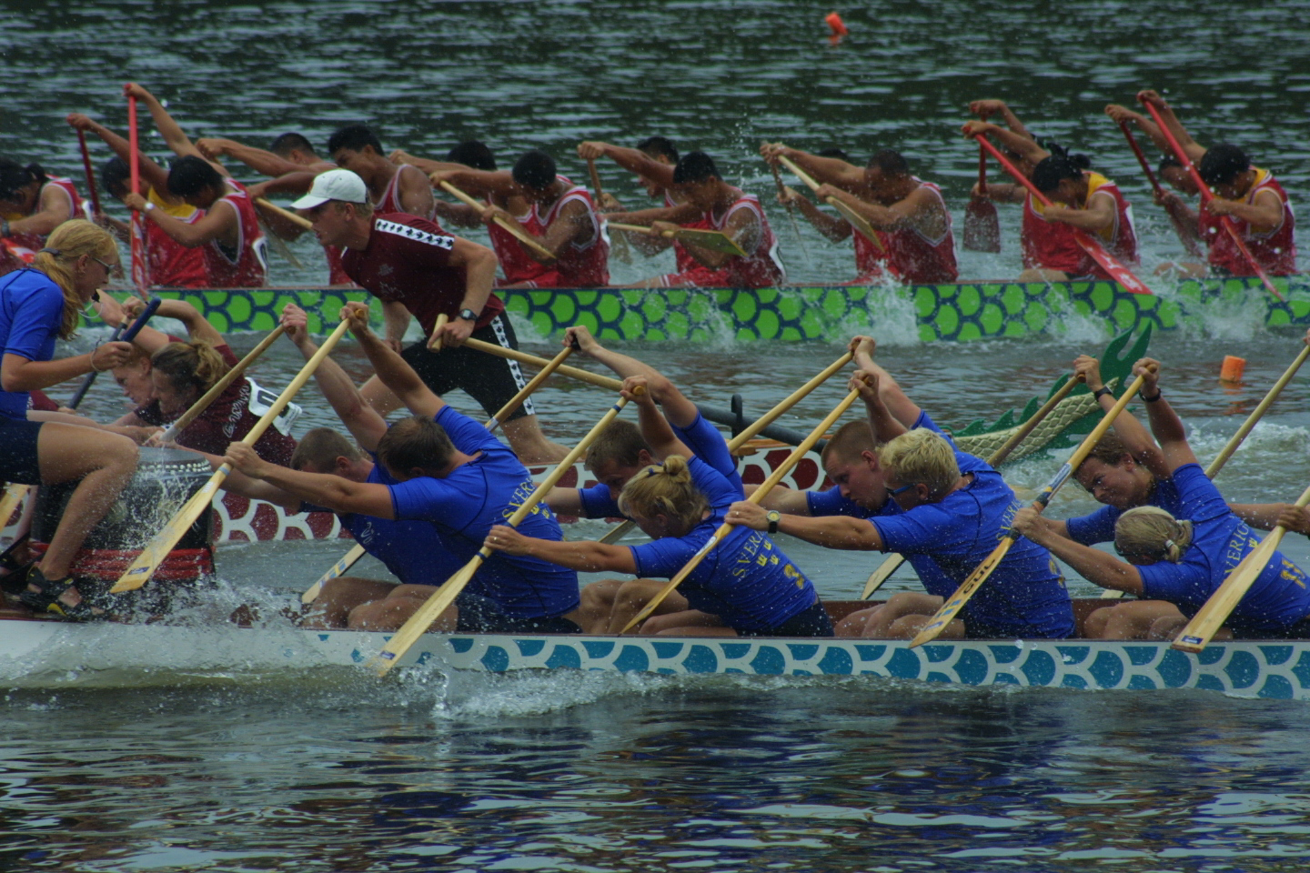 (Swedish National Team racing at the IDBF World Dragon Boat Championships in Philadelphia, USA 2001)